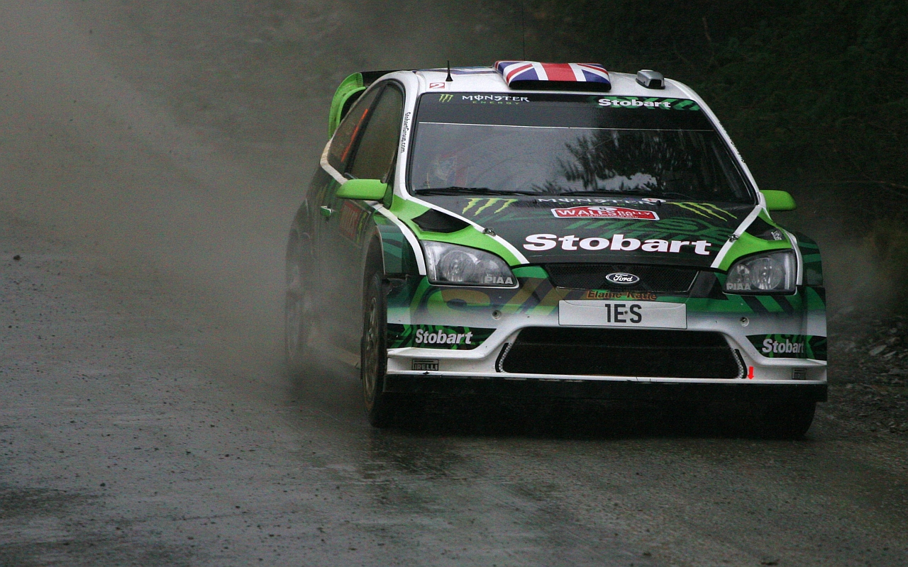 Matthew Wilson and Scott Martin in the Stobart M-Sport Ford Focus RS WRC 08 Other rally pics from this session here on flickr